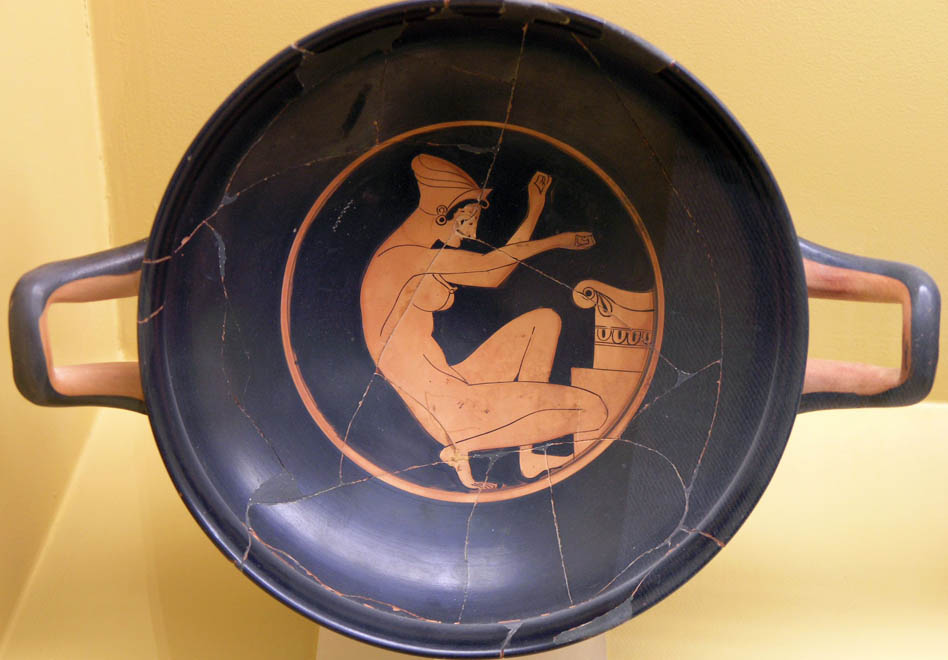 Woman kneeling before an altar. Attic red-figure kylix by the Painter of the Agora Chairias cup, ca. 510-500 BC. Ancient Agora Museum in Athens.